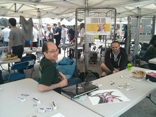 RMLL 2015 Beauvais